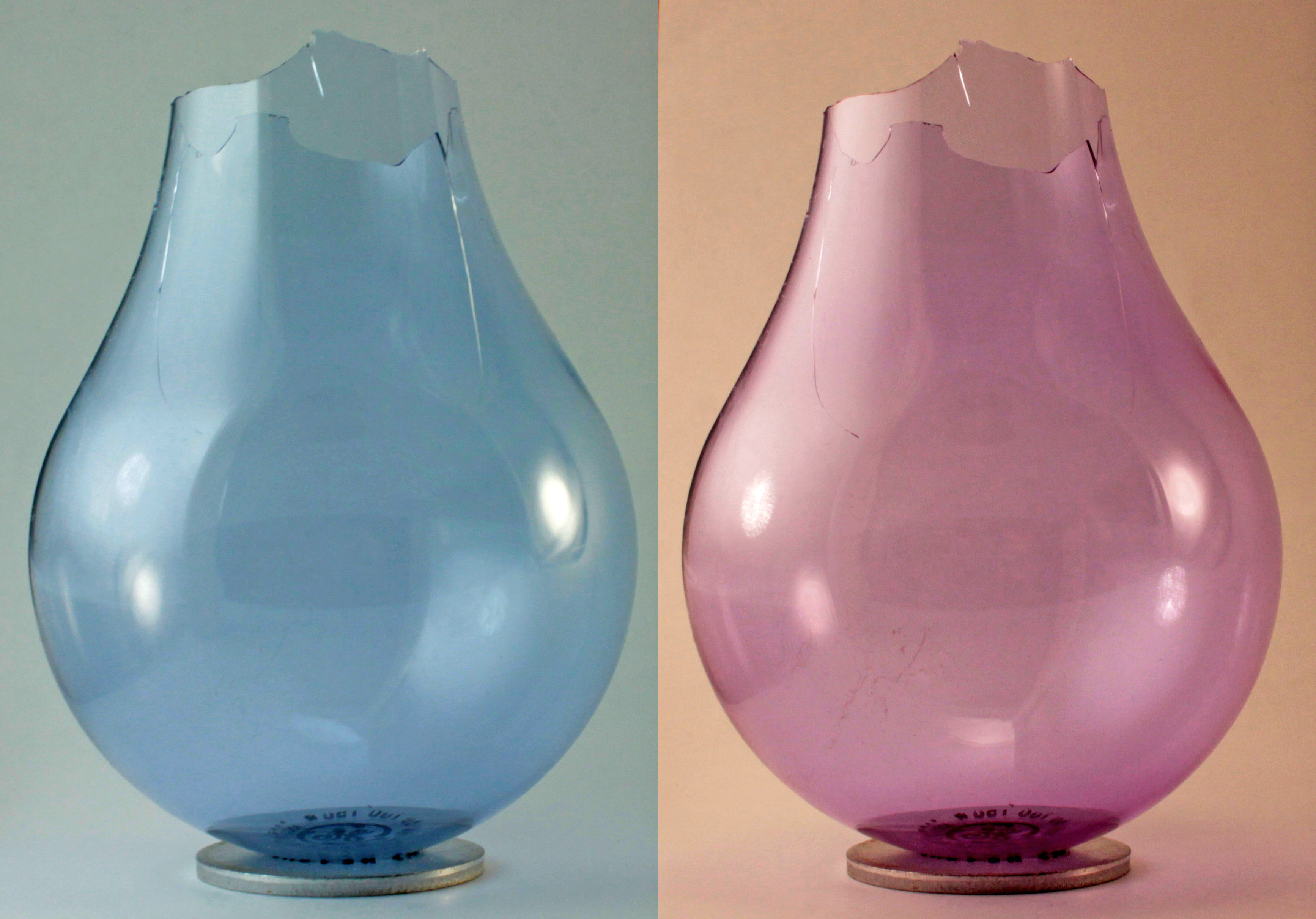 A neodymium glass light bulb, with the base and inner coating removed, under two different types of light: incandescent on the right, and fluorescent on the left. This demonstrates the difference in color of neodymium glass under different lighting conditions. These two photos were taken with identical white balance and coloration and no post-processing, except for cropping. (ISO, shutter speed and aperture were changed between the shots, but this changes only exposure and has basically no effect on the color of the pictures.) The only difference is the type of illumination: fluorescent or incandescent.